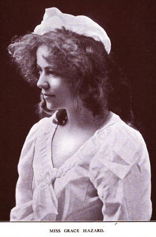 Grace Hazard, from a 1908 publication.